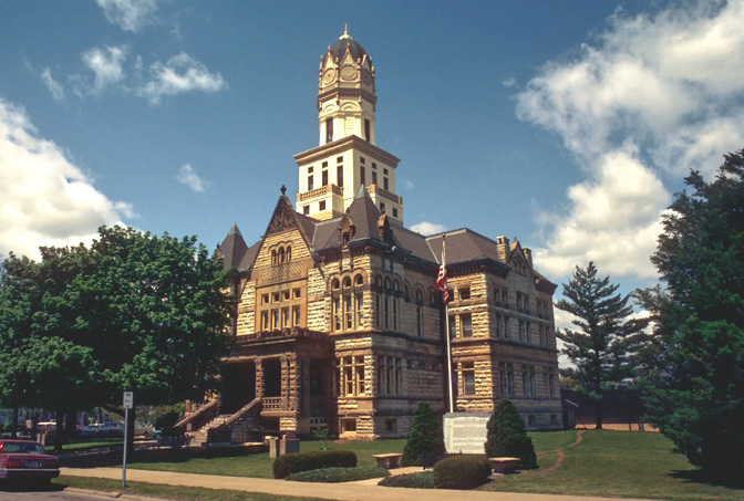 A 1998 photo of the Jersey county courthouse, Jerseyville, Illinois, USA.